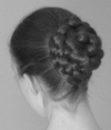 Picture of the back of a woman's head, with her hair in a braided bun